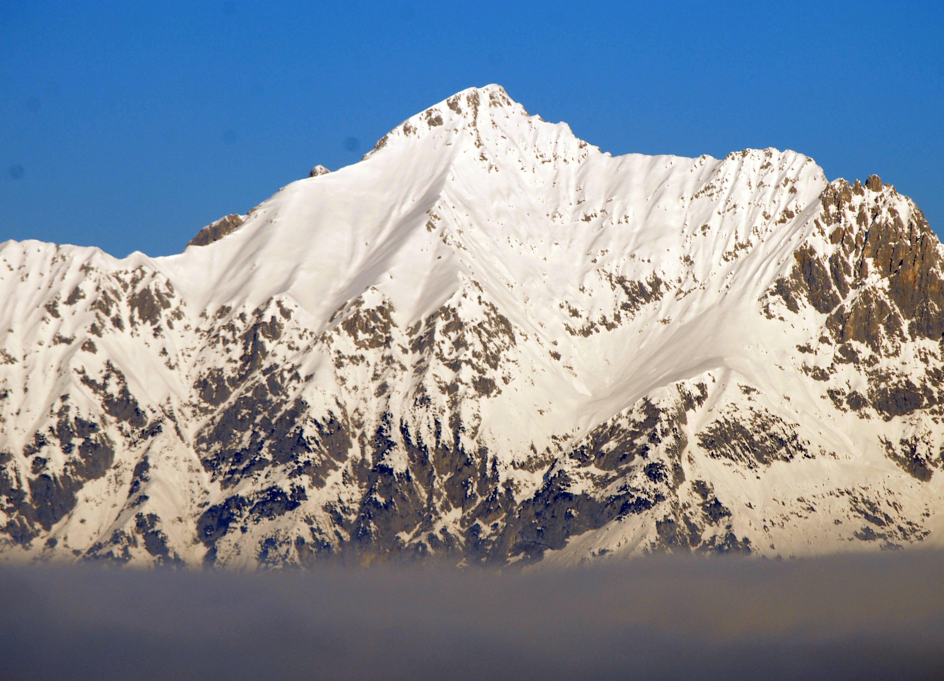 Hochnissl from South